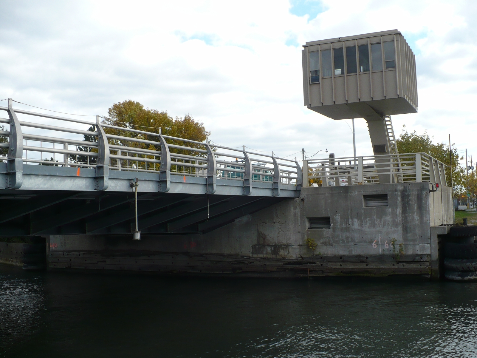 Cherry Street Lift Bridge over the Keating Channel at the mouth of the Don River where it enters Toronto Harbour